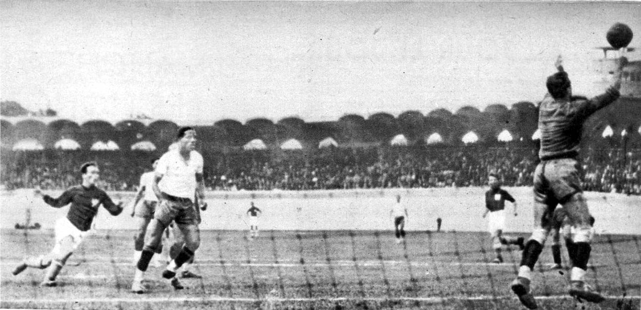 Brazil - Czechoslowakia 1-1 at Parc Lescure (nowadays Stade Chaban-Delmas), Bordeaux, France, during the 1938 Rimet Cup